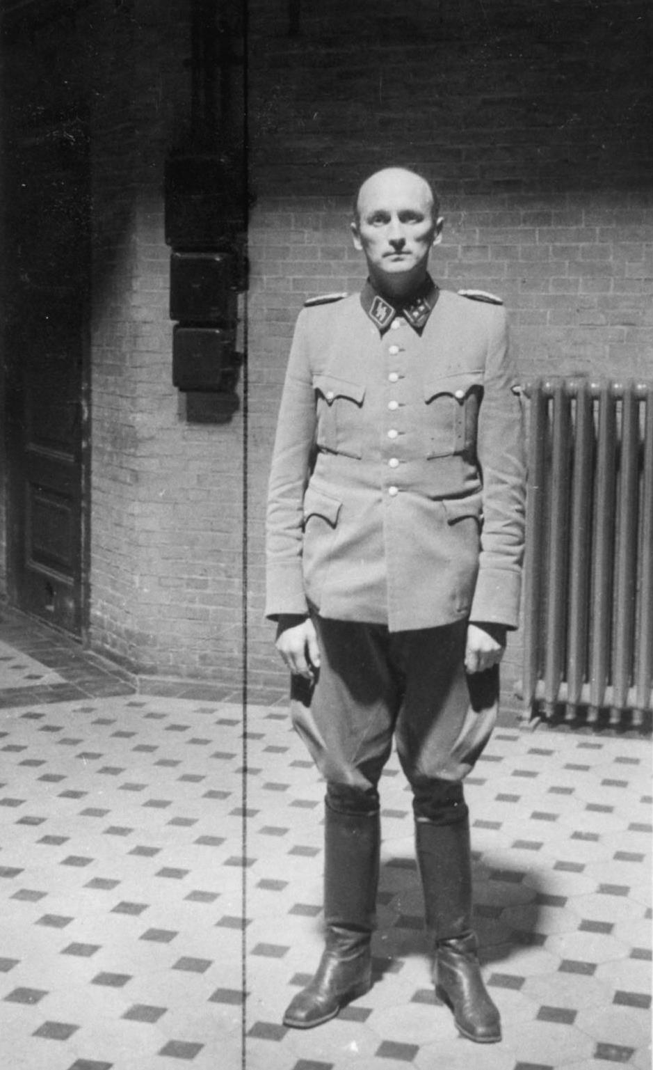 Willy Lages (1901-1971), German war criminal, SS-Sturmbahnführer, head of the Sicherheitsdienst (SD) in Amsterdam (The Netherlands). 1945.